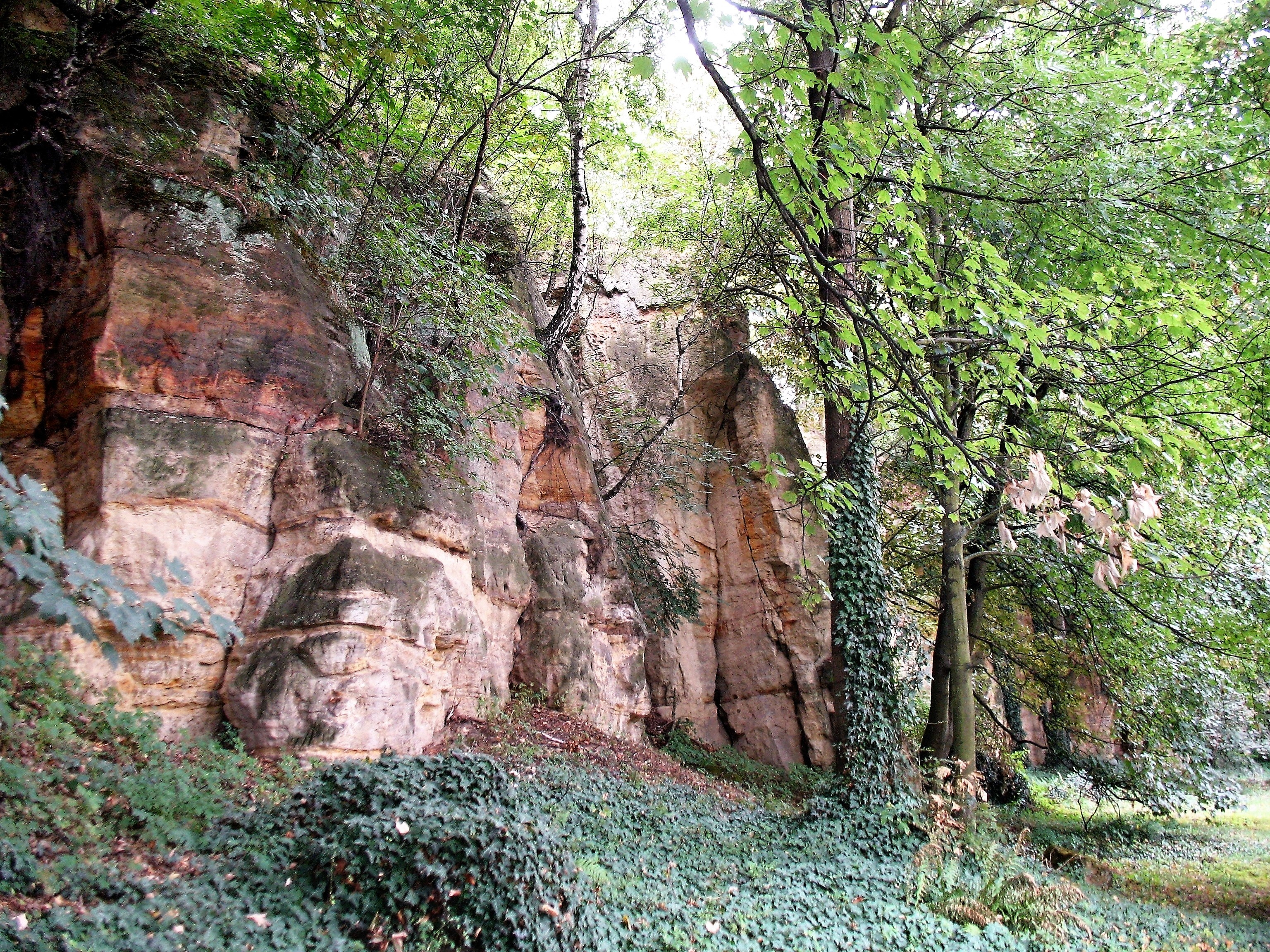 Natural monument Střešovické skály, Prague 6, street Na Petřinách